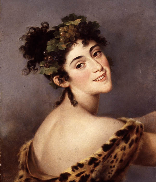 La Bigottini, danseuse(1784-1858)